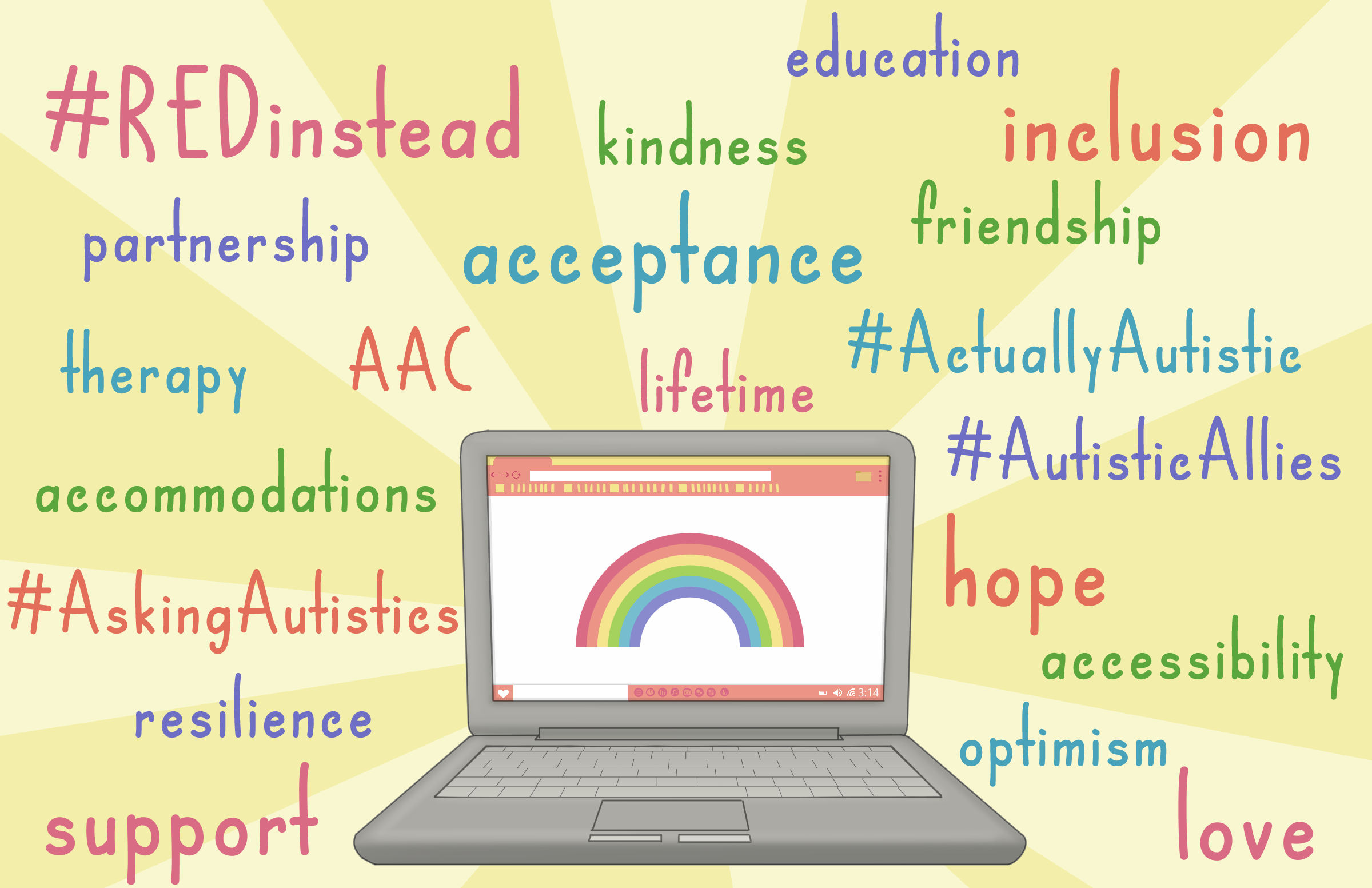 An image showing common hashtags, discussion topics, and goals in autistic culture. Many autistic people believe in increased acceptance and inclusion of autistic people, including those who are high-support.